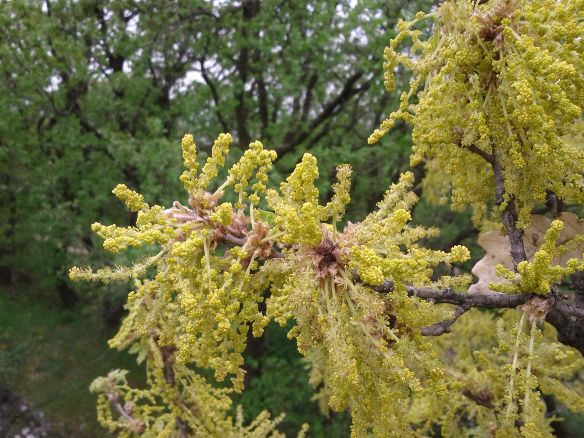 Florescences Taxon: Quercus pubescens (sensu Fischer et al. EfÖLS 2008) Location: Goldberg near Schützen am Gebirge, district Eisenstadt-Umgebung, Burgenland, Austria - ca. 225 m a.s.l. Habitat: pubescent oak wood